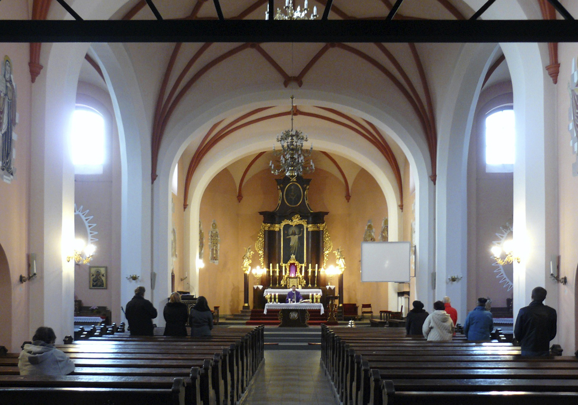 Skorzewo, Church interior.